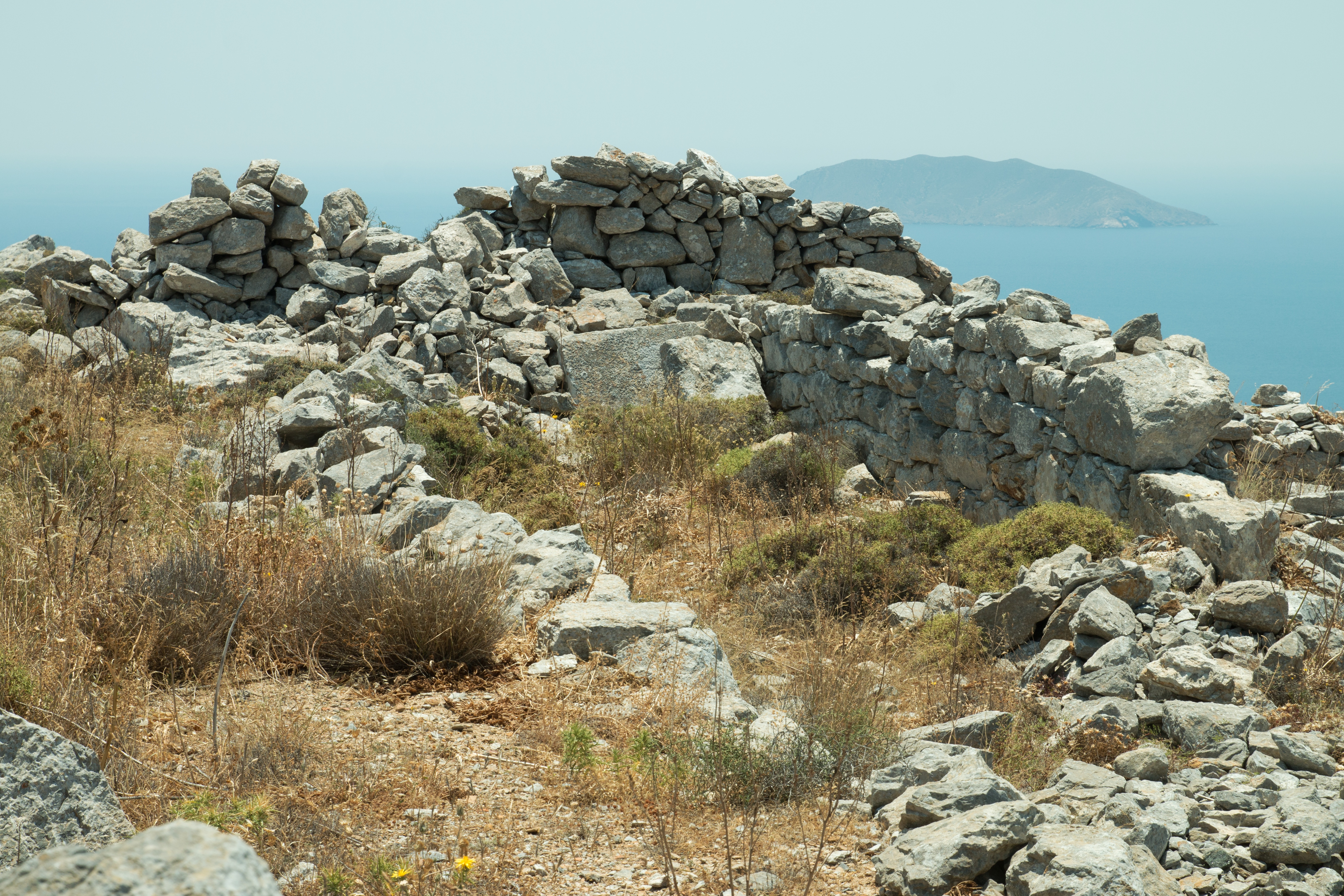 Remnants of the Acropolis and its surroundings, the ancient city of Anafi under the hill of Kasteli.